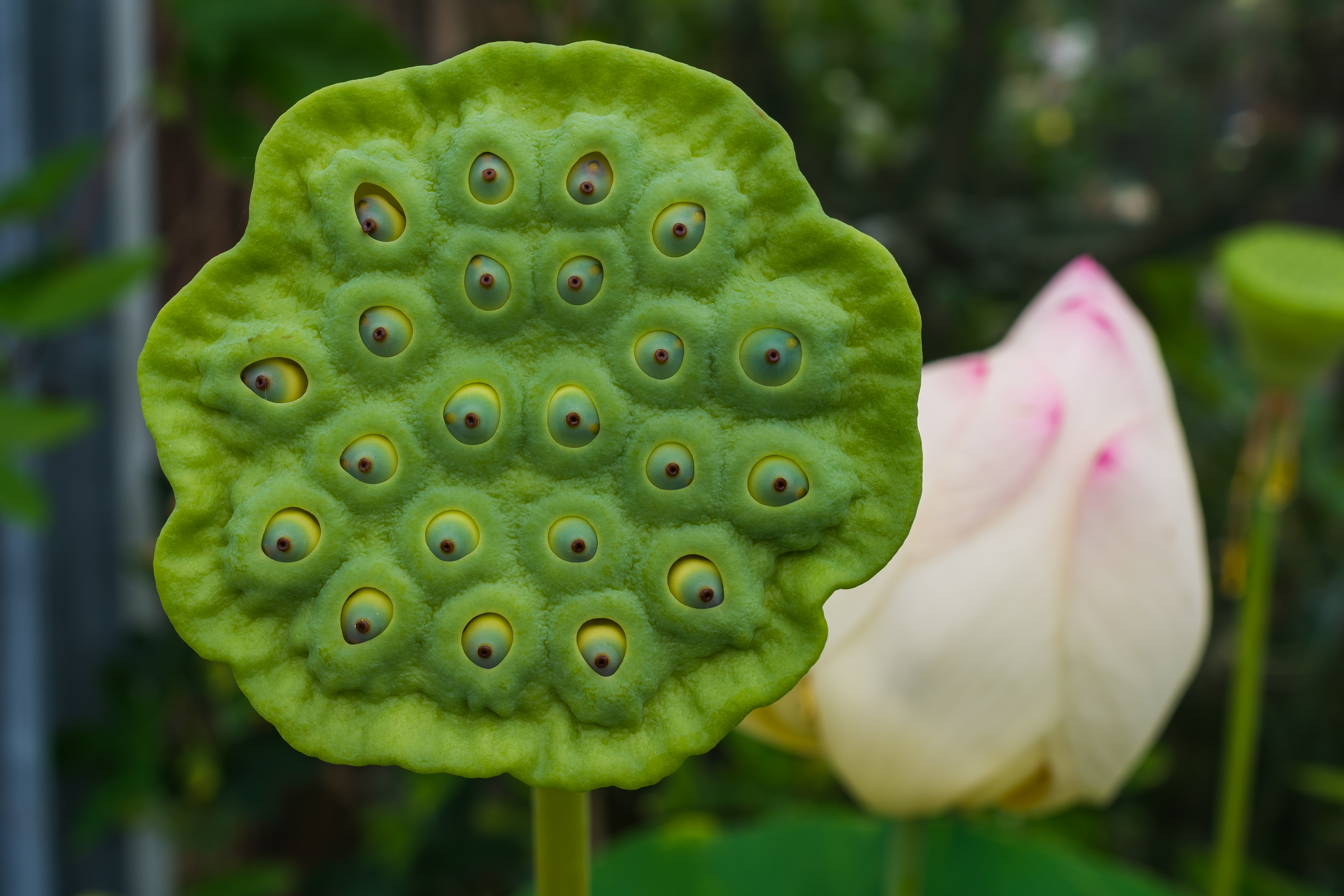 Fruit of Lotos Nelumbo nucifera, Botanischer Garten Linz/Austria